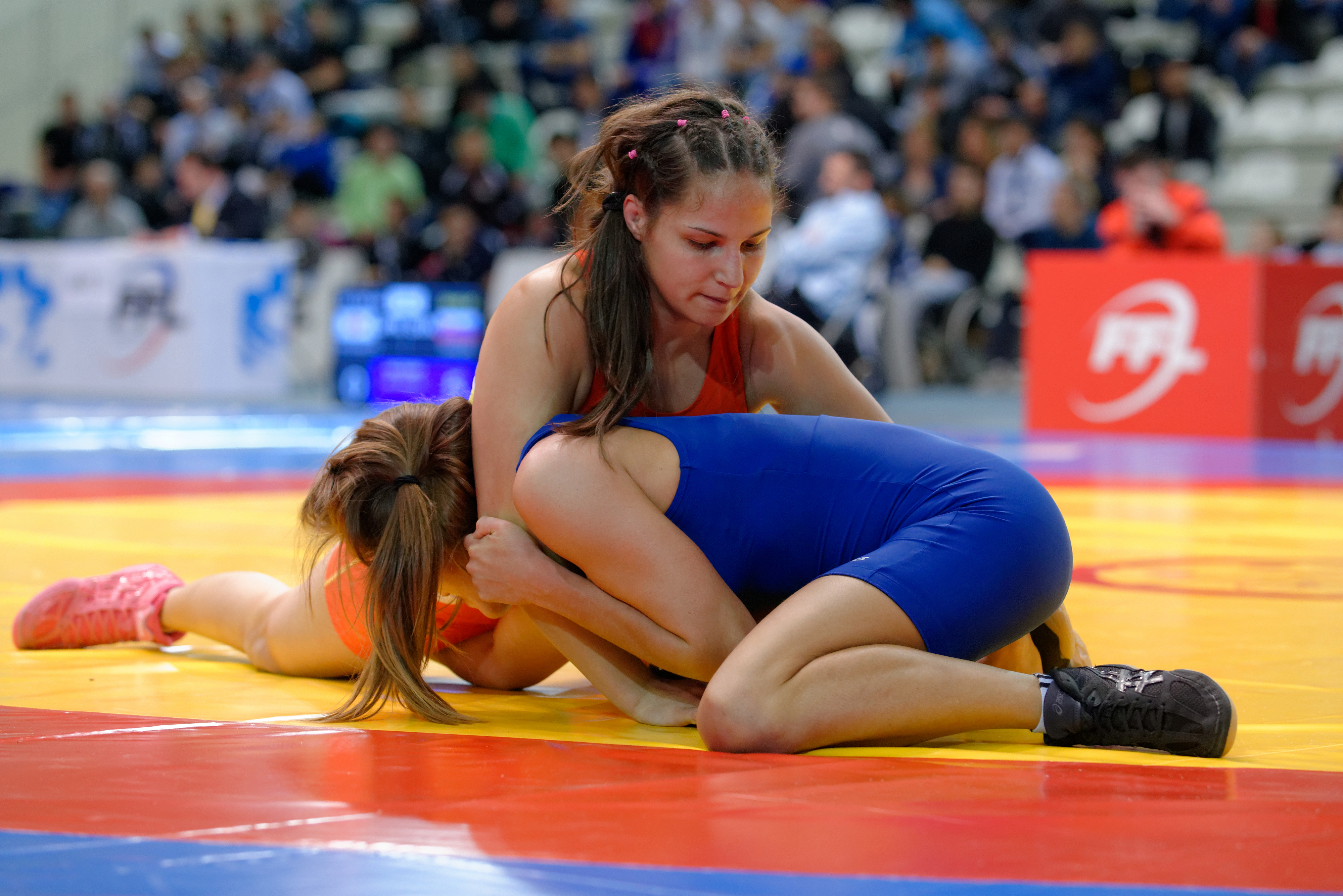 Karima Sanchez Ramis of Spain (red) wrestles Spain's Margot Rivière (blue) during their female wrestling 58 kg quarter-final at the Golden Grand Prix of Paris on 8 February 2014.